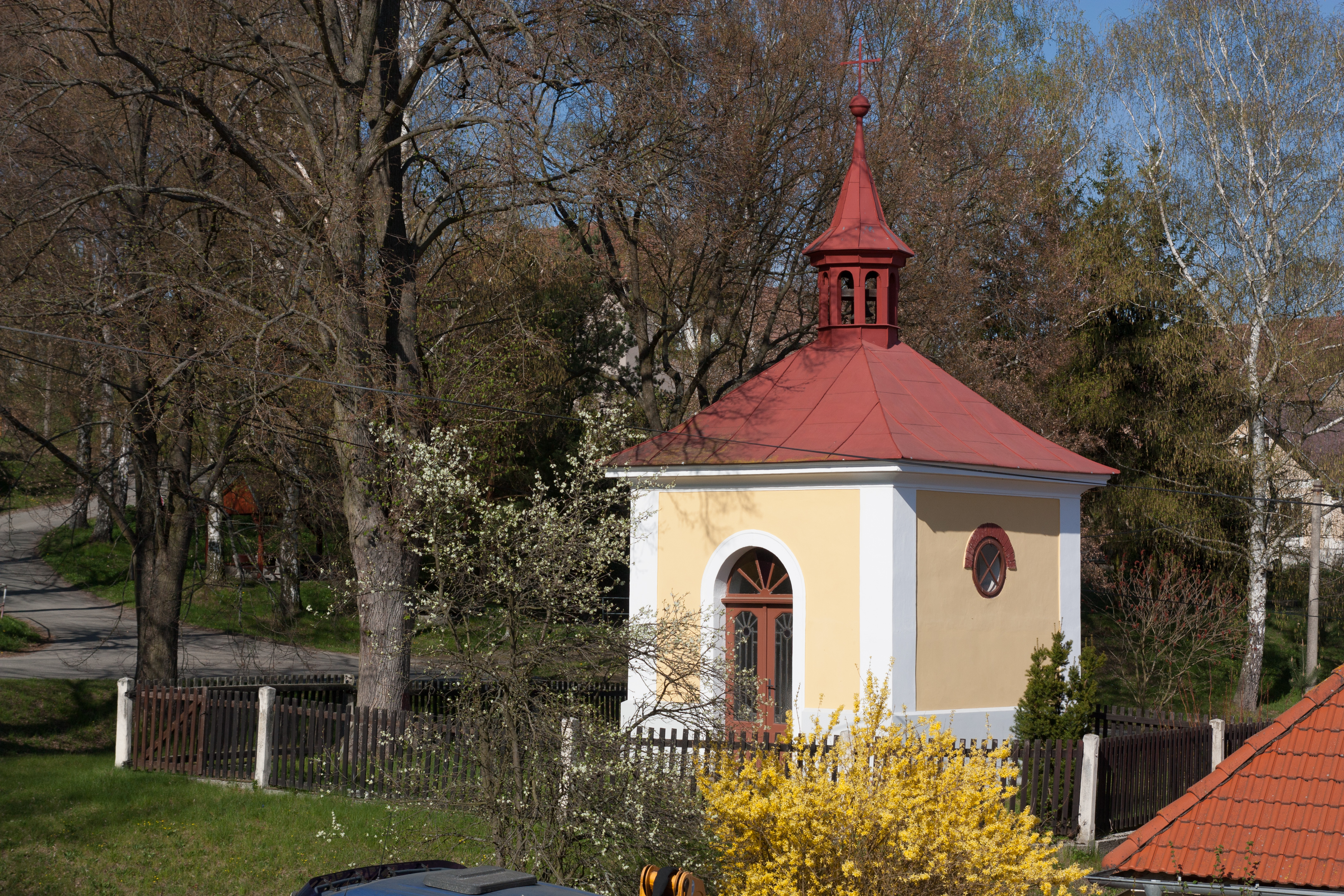 Chapel in municipality Náchod (Tábor), Tábor District, South Bohemian Region, Czechia